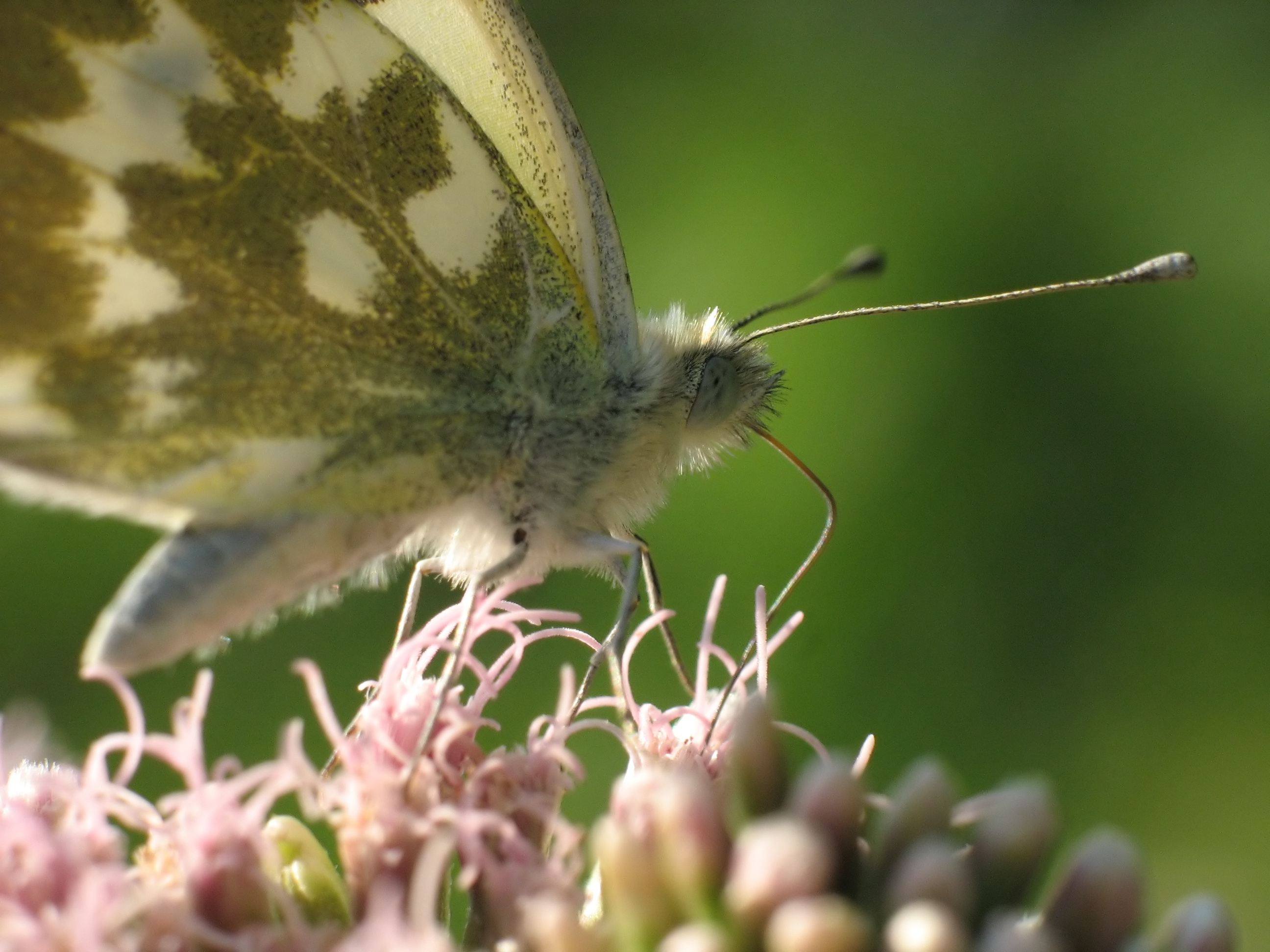 Bath White (Pontia daplidice (=Pieris daplidice)), location Zabrze, Poland